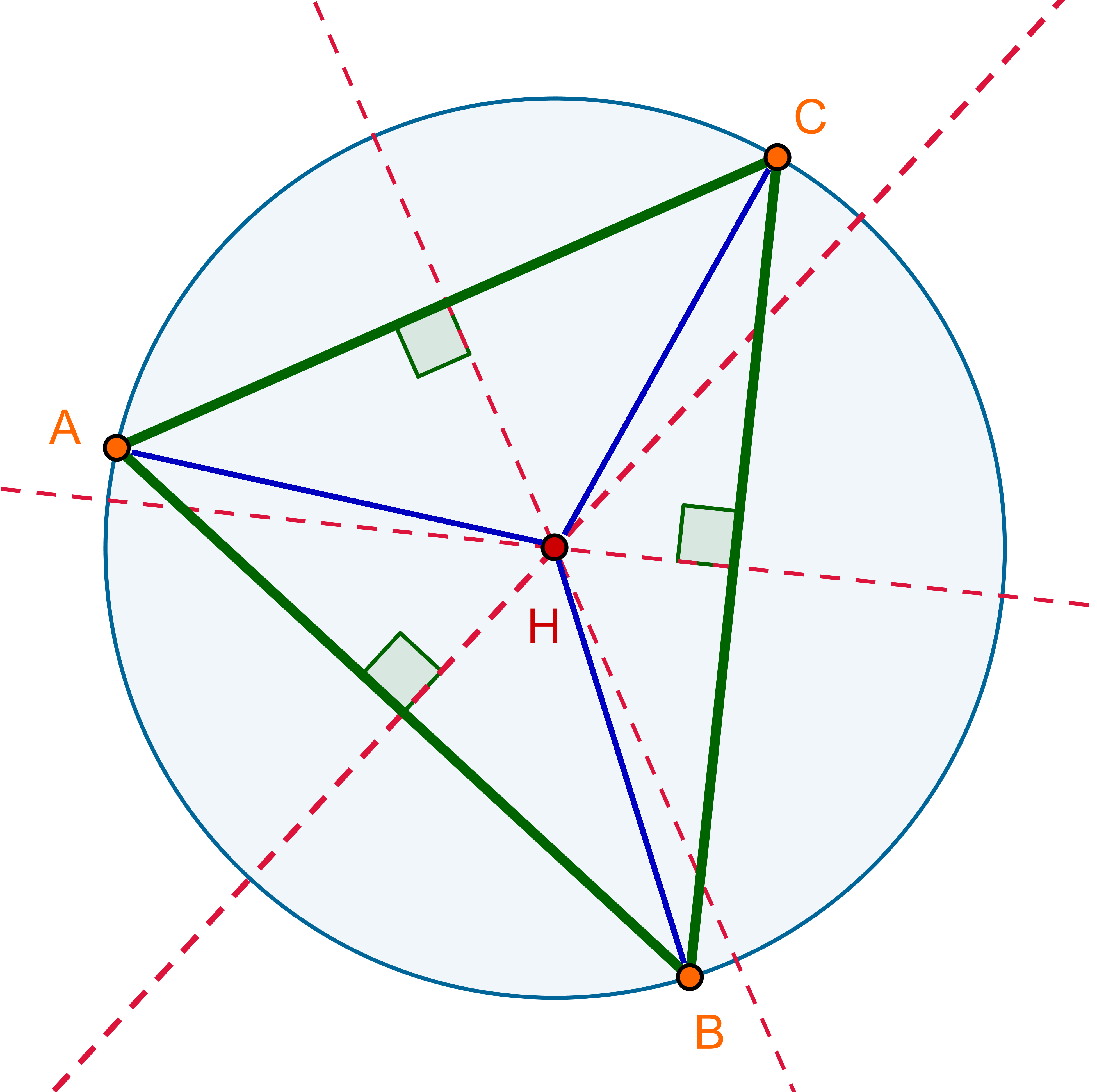 Line segment AB bisector, point of bisector has equal distance to endpoints, bisectors meets on the center of surrounding circle of triangle